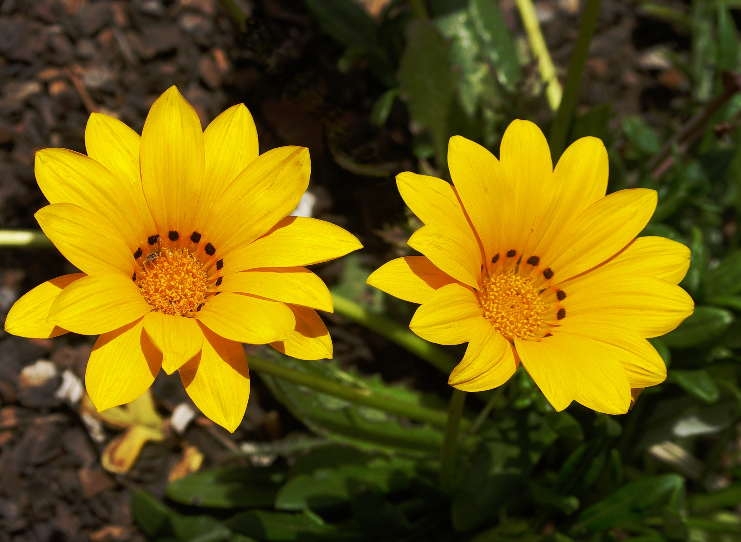 Yellow flowers of Gazania rigens